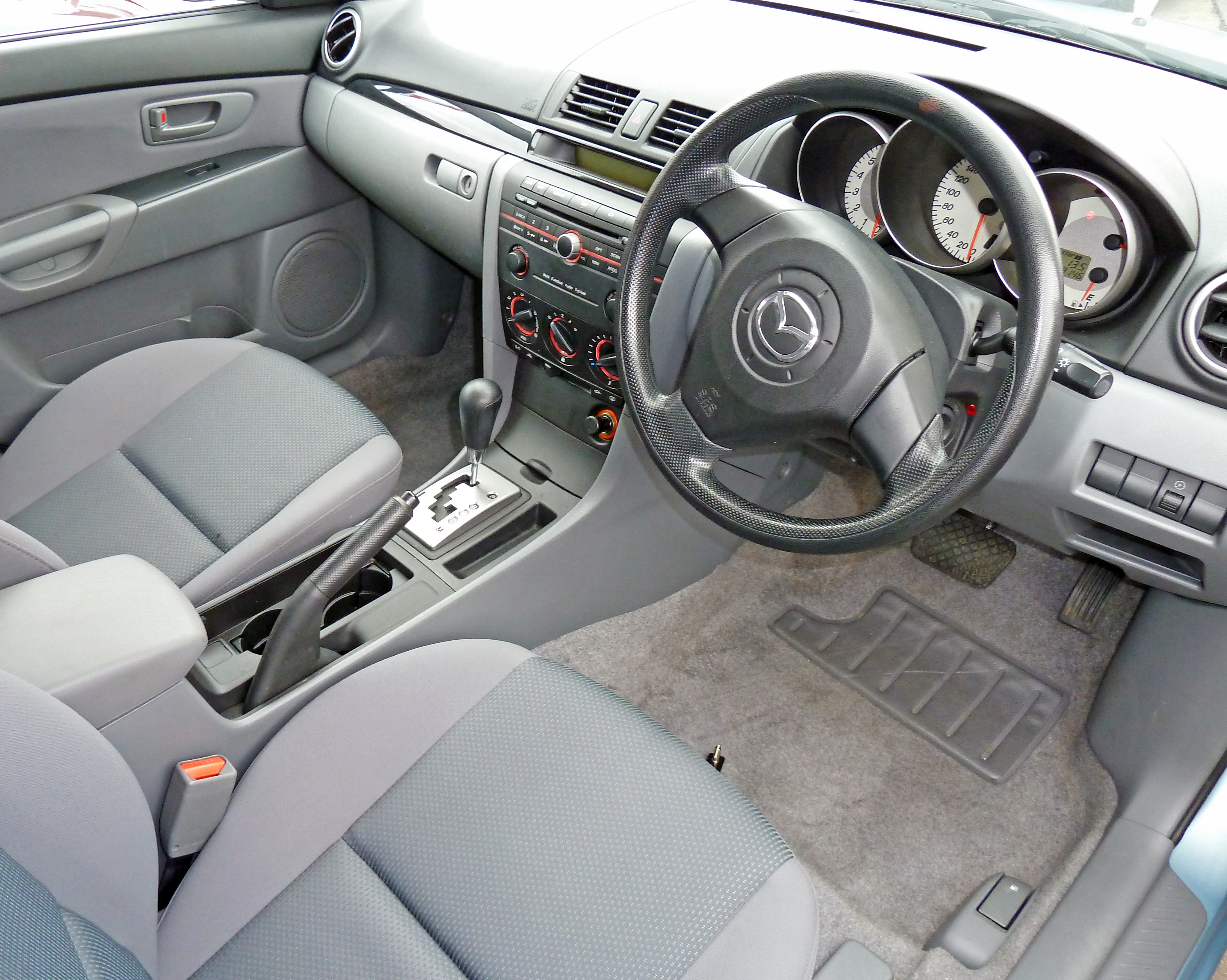 2007 Mazda3 (BK Series 2) Neo hatchback. Photographed at Suttons Holden, Chullora, New South Wales, Australia.